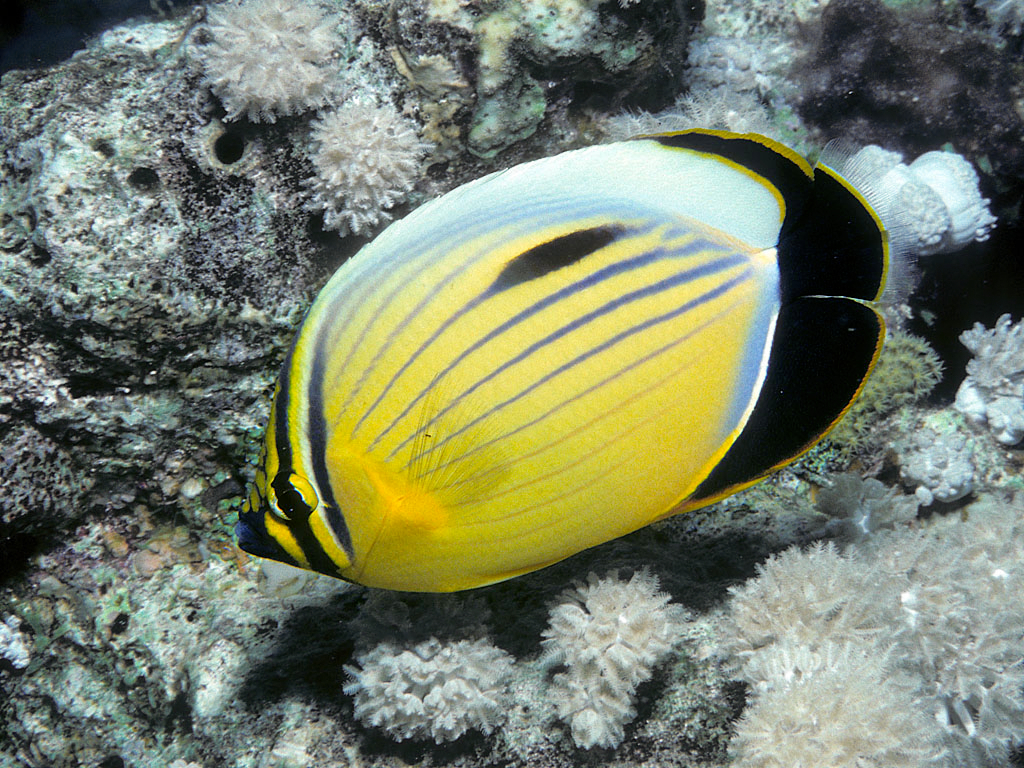 Chaetodon austriacus, Blacktail butterflyfish. Underwater photograph, Sharm el Sheik, Egypt, Red Sea.